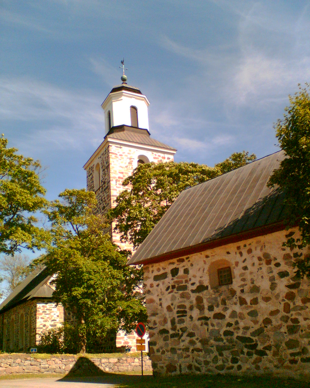 Kimito church